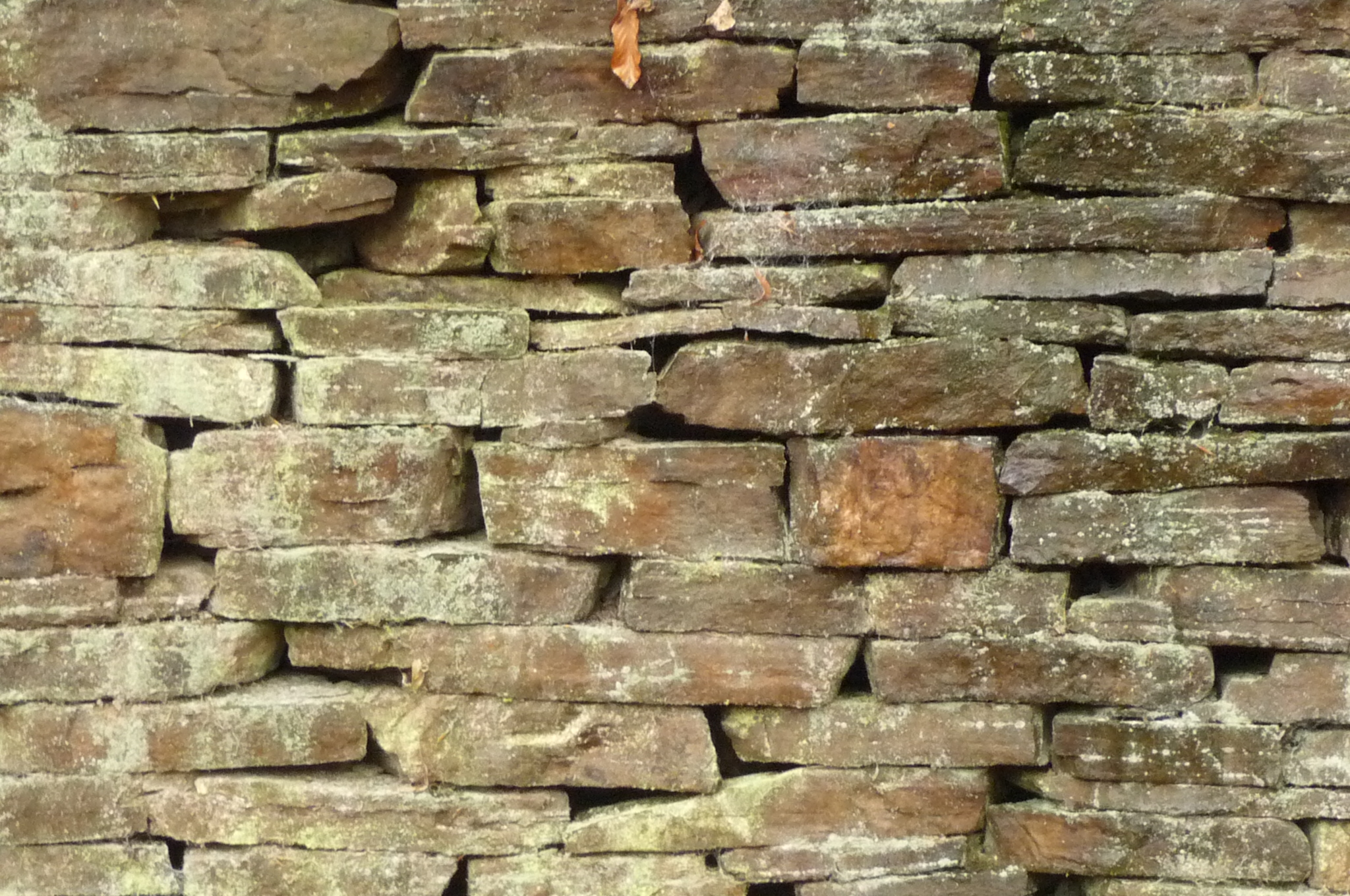 Wall facing made of quarry stones